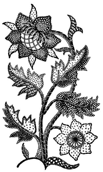 Crewel work embroidery design "sprig of flower taken from a XVIIth century embroidered curtain; similar bunches, but composed of different flowers, recur at intervals over this hanging."